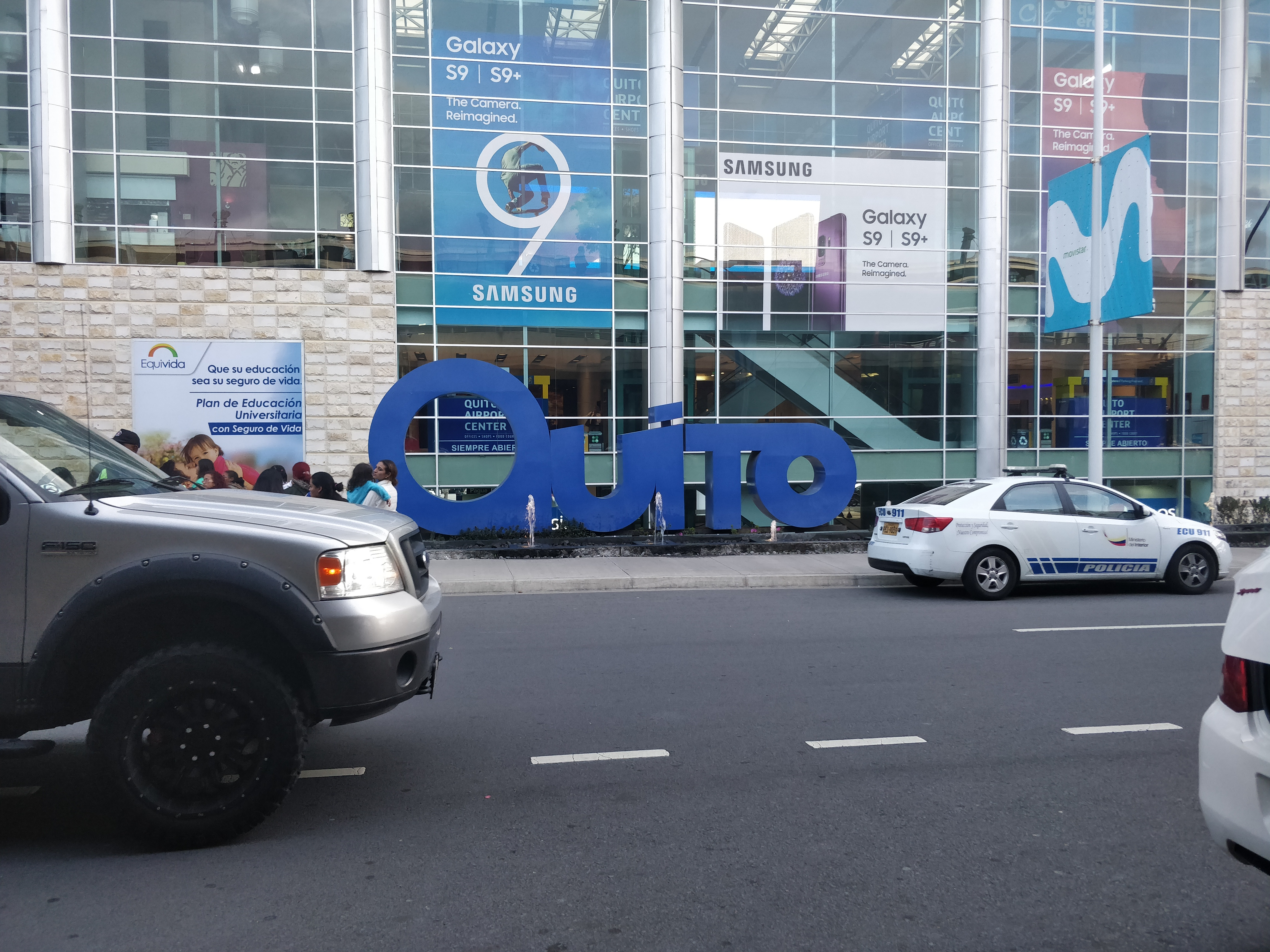 This picture was taken from Mariscal Sucre International Airport, which is located in Quito, Ecuador